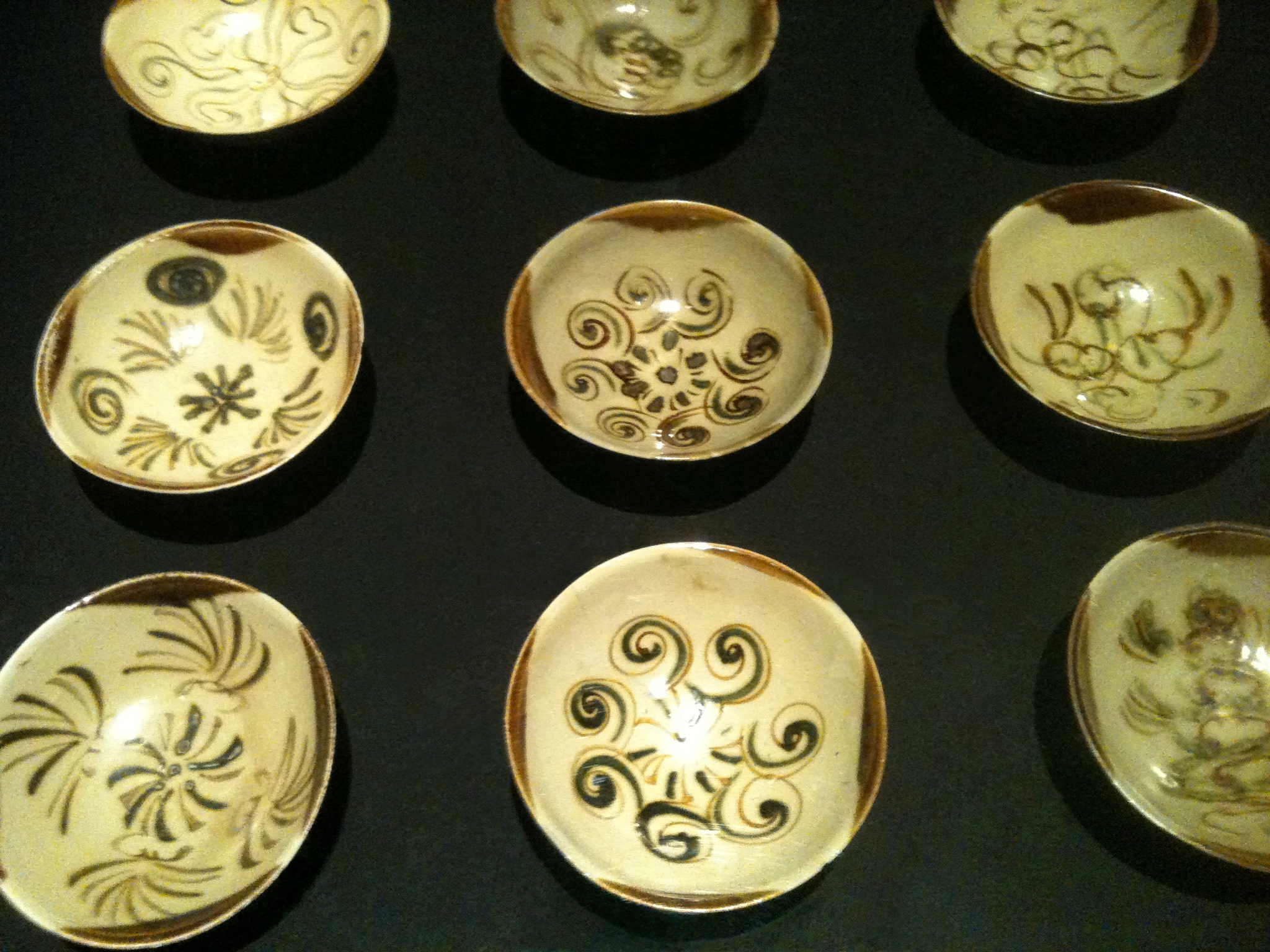 Part of the collection of artifacts from the Belitung shipwreck owned by the Sentosa Leisure Group and the Government of Singapore, photographed while displayed at an exhibition called Shipwrecked: Tang Treasures and Monsoon Winds at the ArtScience Museum, Marina Bay Sands, Singapore, from 19 February 2011 to 31 July 2011.